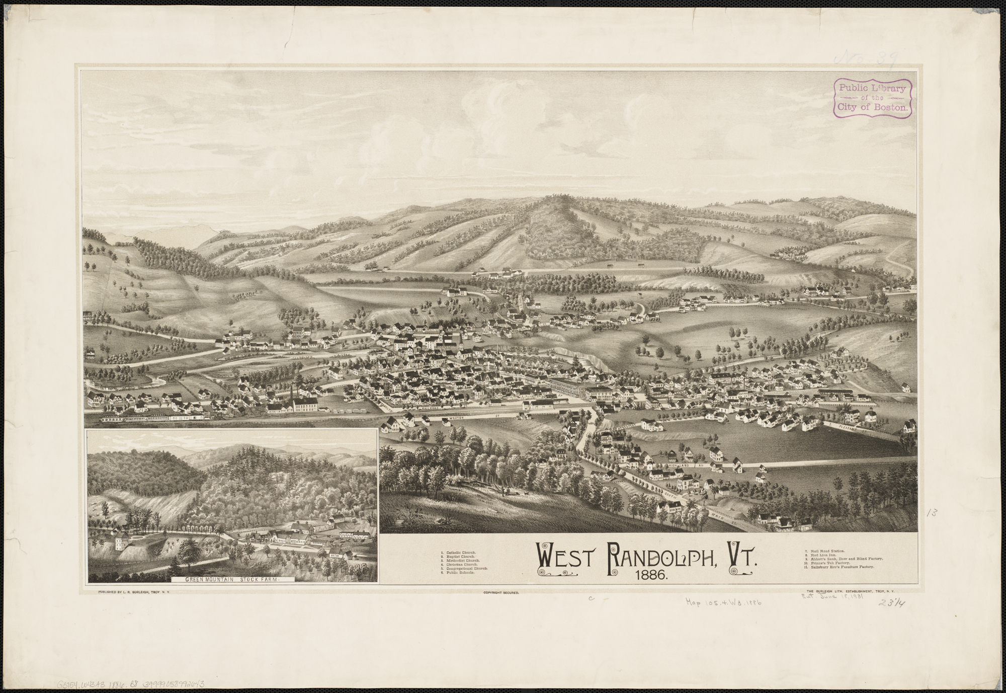 Zoom into this map at . Author: Burleigh, L. R. Publisher: L.R. Burleigh Date: 1886 Location: Randolph (Vt.) Scale: Not drawn to scale. Call Number: G3754.W43A3 1886.B8